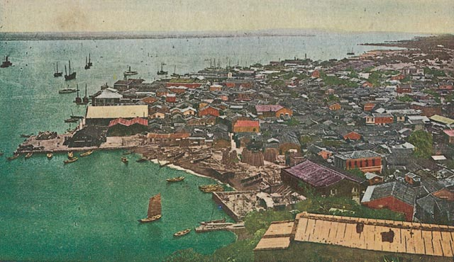 Kigo, Takao, Formosa